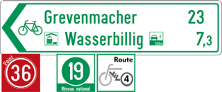 Diagram of road signs of Luxembourg